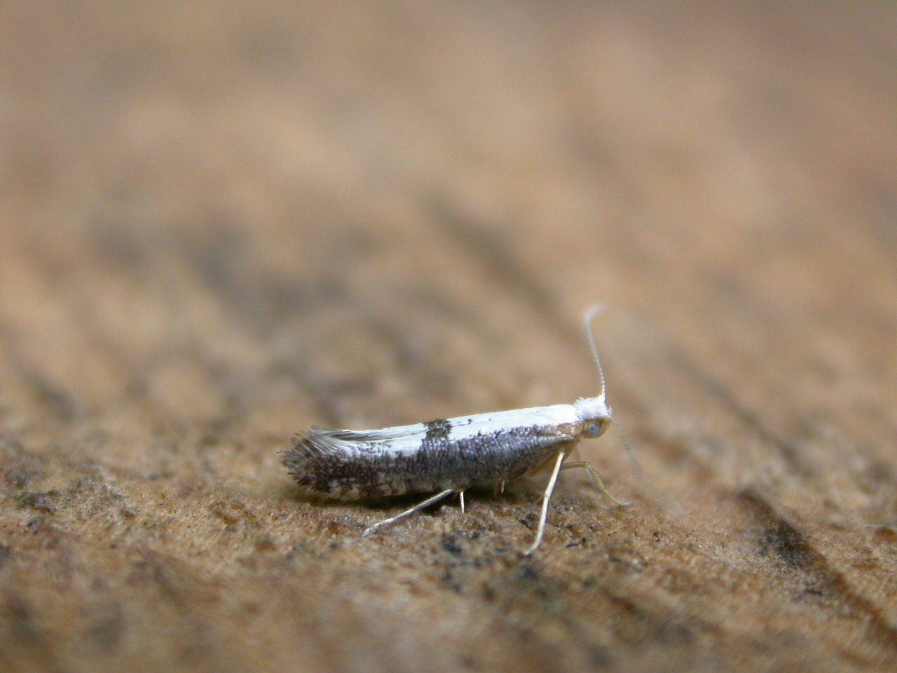 Argyresthia semifusca, to MV light, Hellerup, Denmark, 19 June 2003